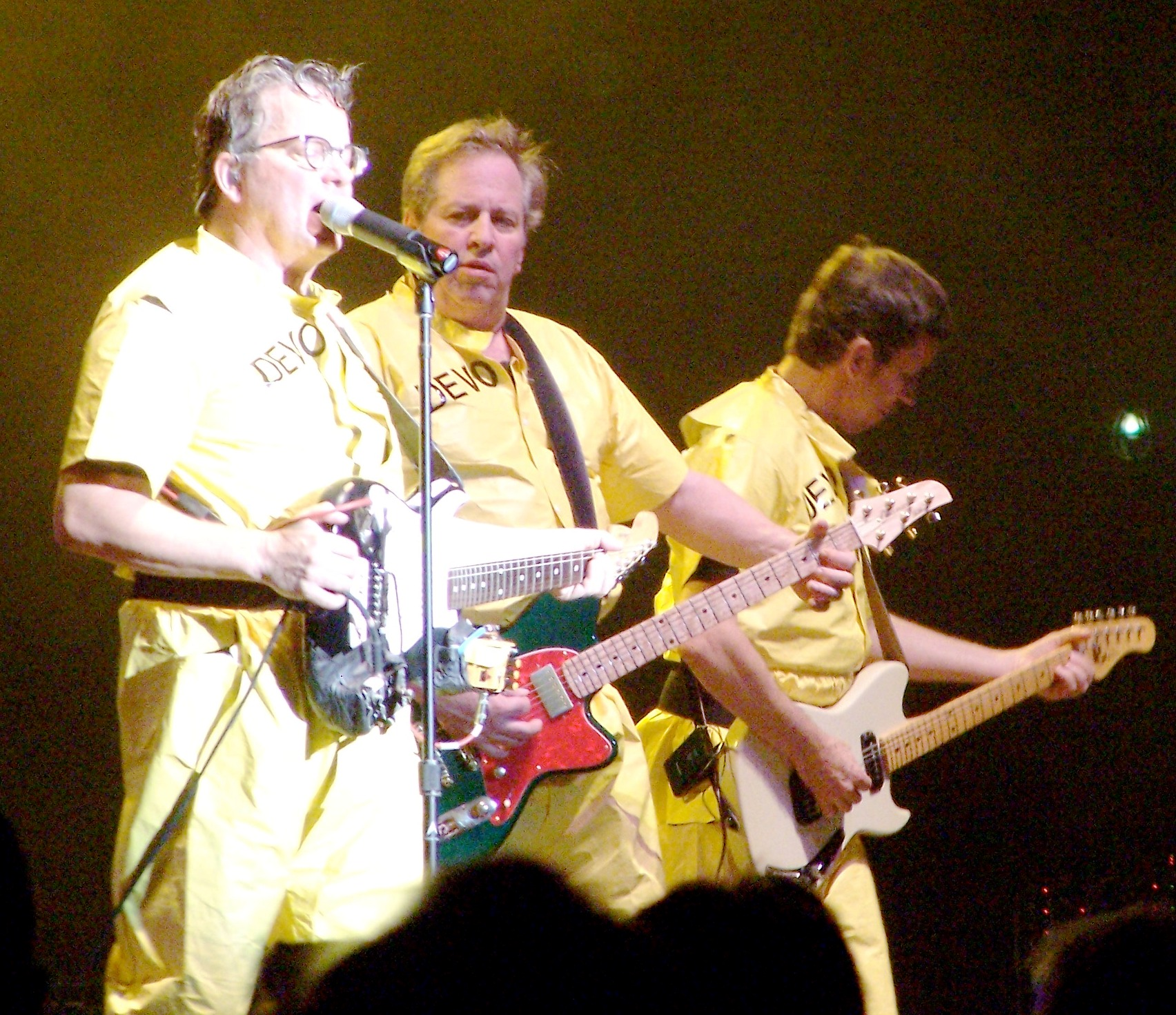 Devo at BofA Pavilion, Boston